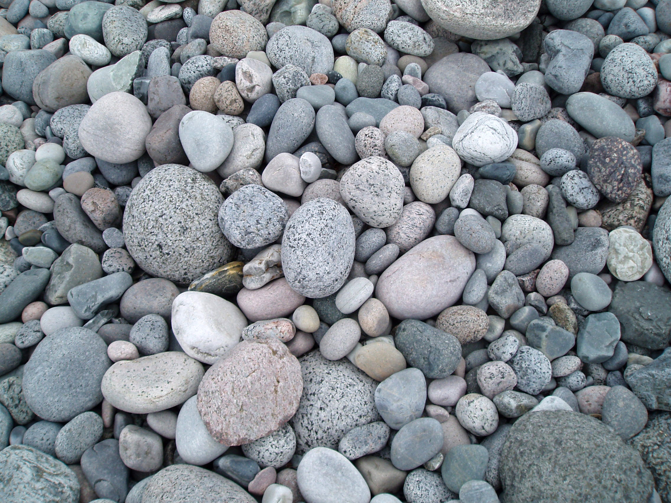 Detail from the geopark Mølen in the south of Vestfold, Norway.